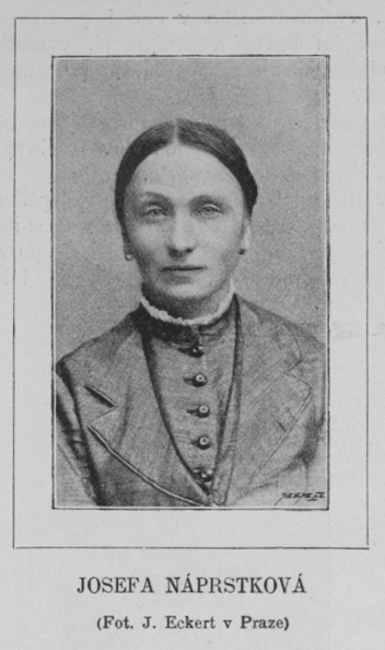 Portrait of Josefa Náprstková, née Křížková (1838-1907), Czech entrepreneuse, collector of embroideries and an active participant of women's movement.